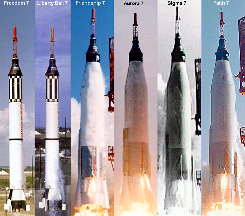 Piloted Mercury Launches. I created this image in Paint Shop Pro. The individual launch photos came from the NASA Image Exchange (Nix) website